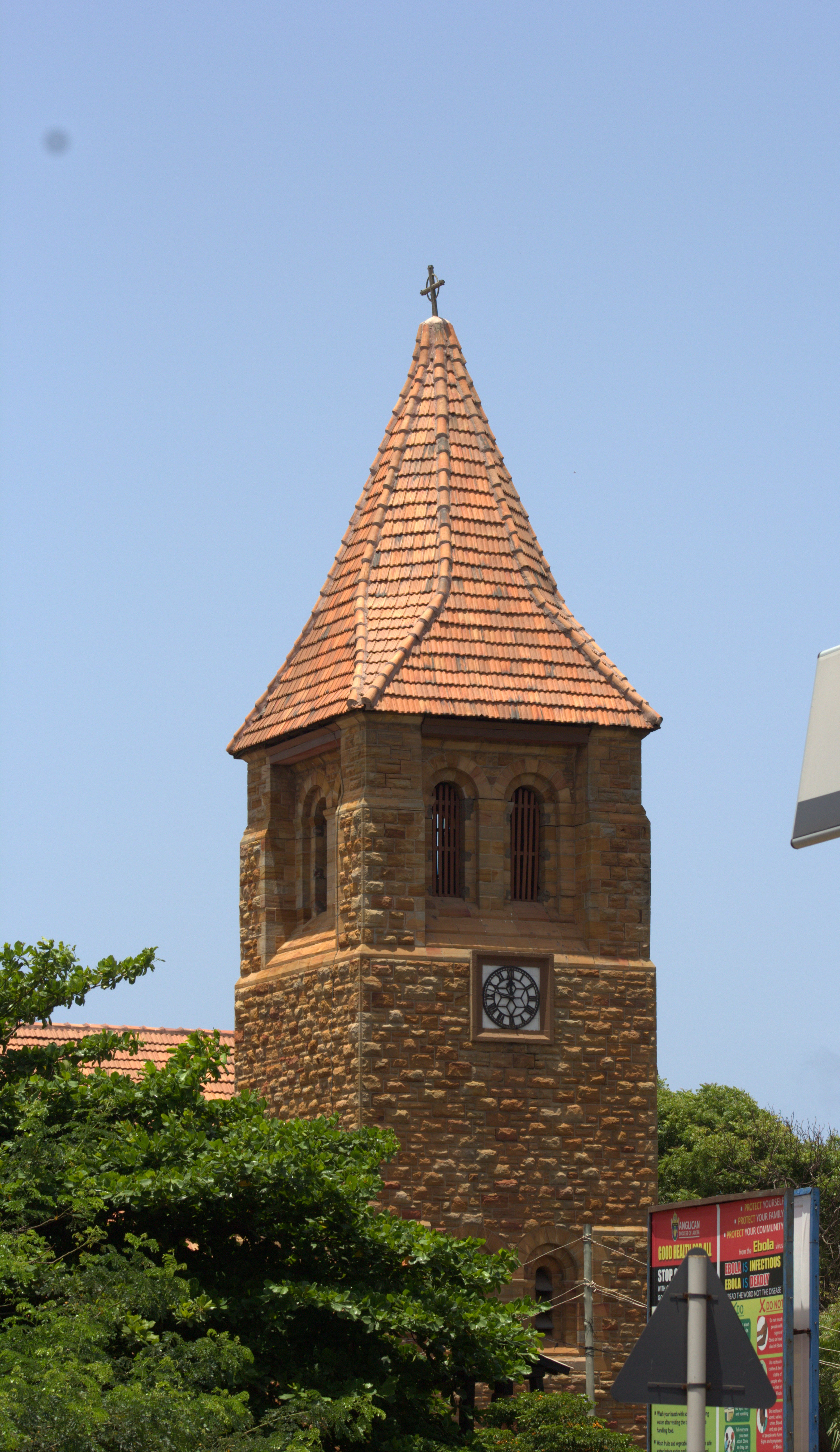 Holy Trinity Cathedral (Accra) Tower at High Street. Jamestown - Accra